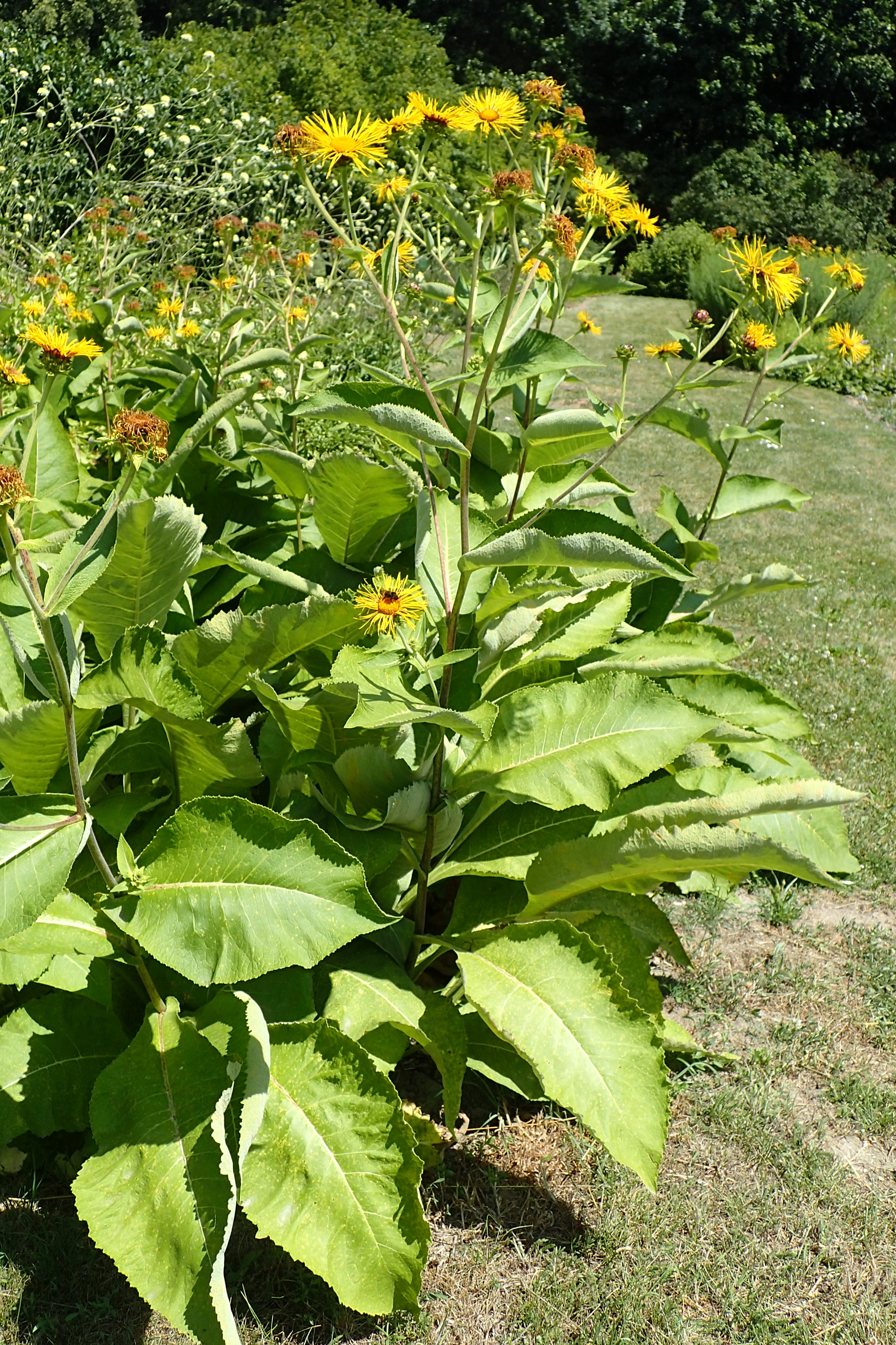 Inula royleana in the UMCS Botanical Garden in Lublin